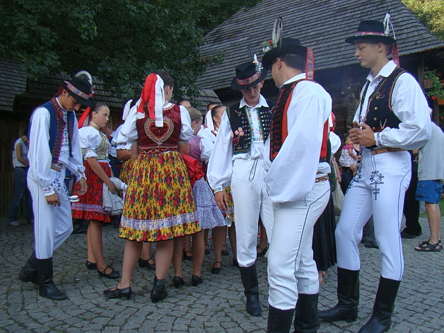 Kermesz Karpackich Smaków in Sanok, 2010